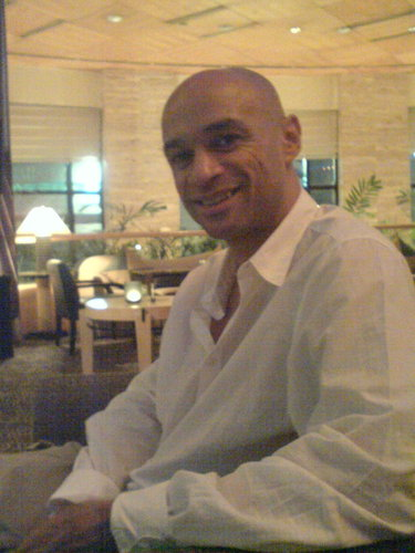 Ernie Odoom at Living Room Cafe in Sheraton Grande Sukhumvit Hotel